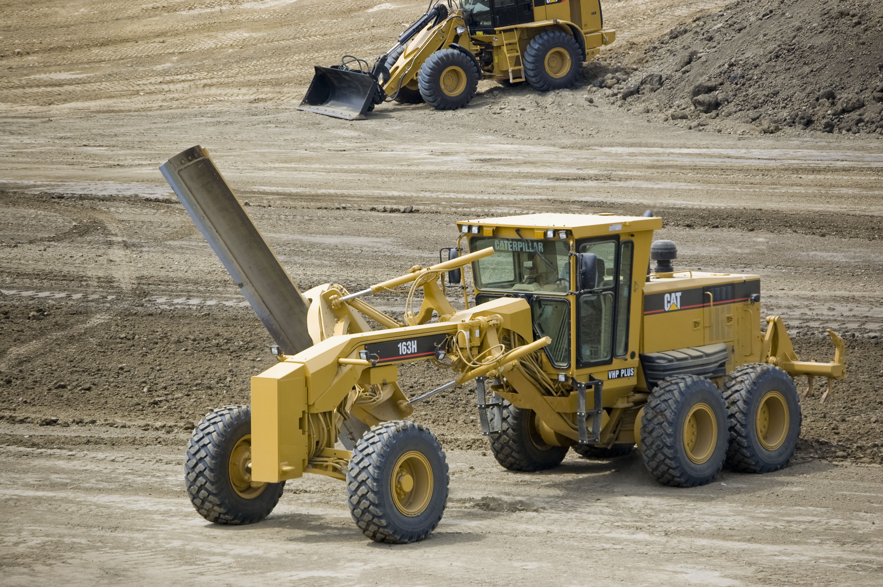 Caterpillar Grader 163H